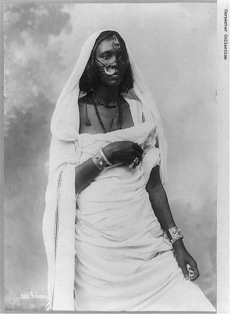 African black Nubian woman, Egyptian Sudan 3/4 lgth., standing, facing right.